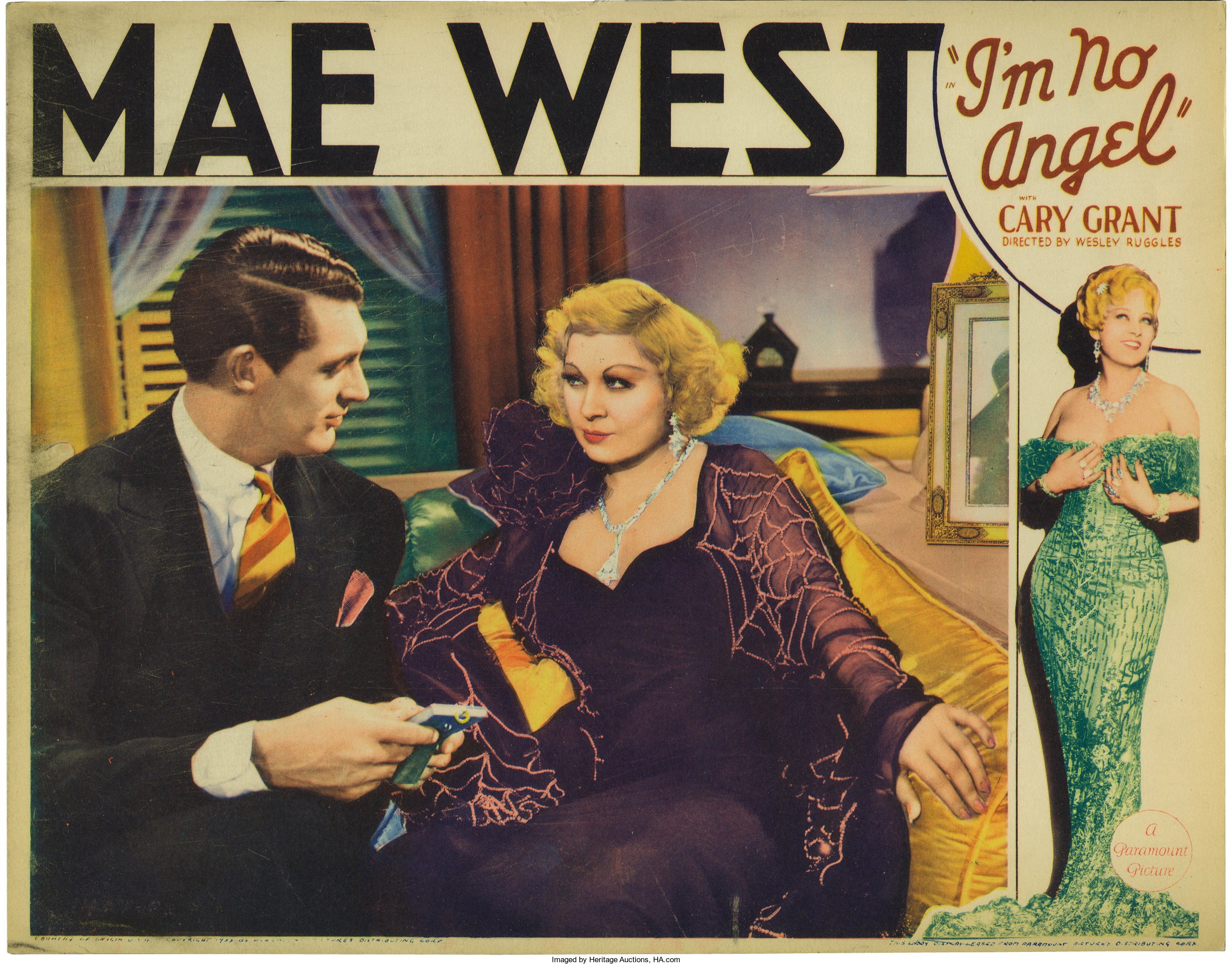 Lobby card for the American film I'm No Angel.